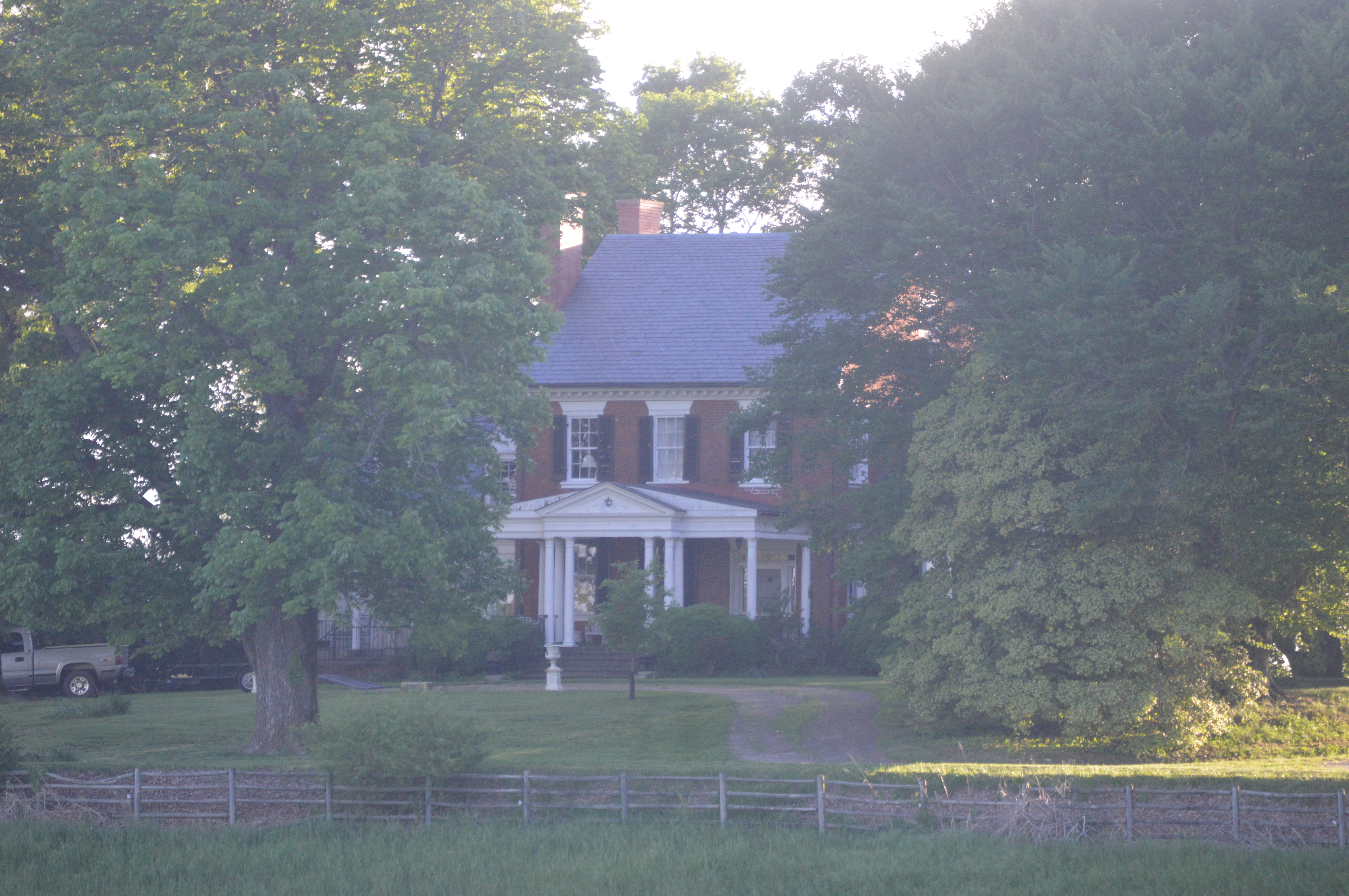 Distant view (affected by the sun) of the Elk Hill plantation house, located on Perrowville Road between Lynchburg and Bedford in Bedford County, Virginia, United States. Built in 1797, it is listed on the National Register of Historic Places.